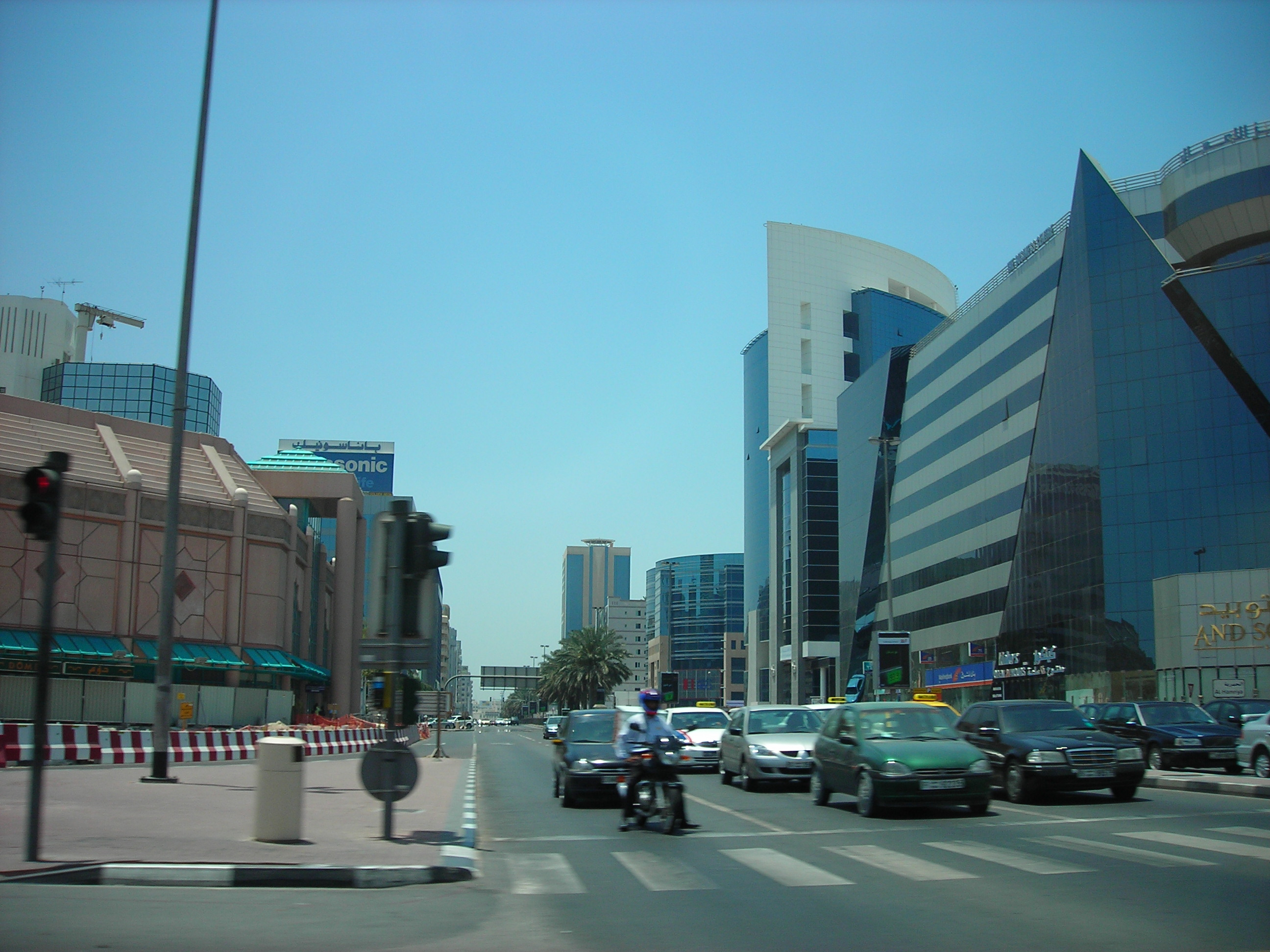 The intersection of Al Hamriya and Al Mankhool in Dubai. Burjuman is on the extreme left.